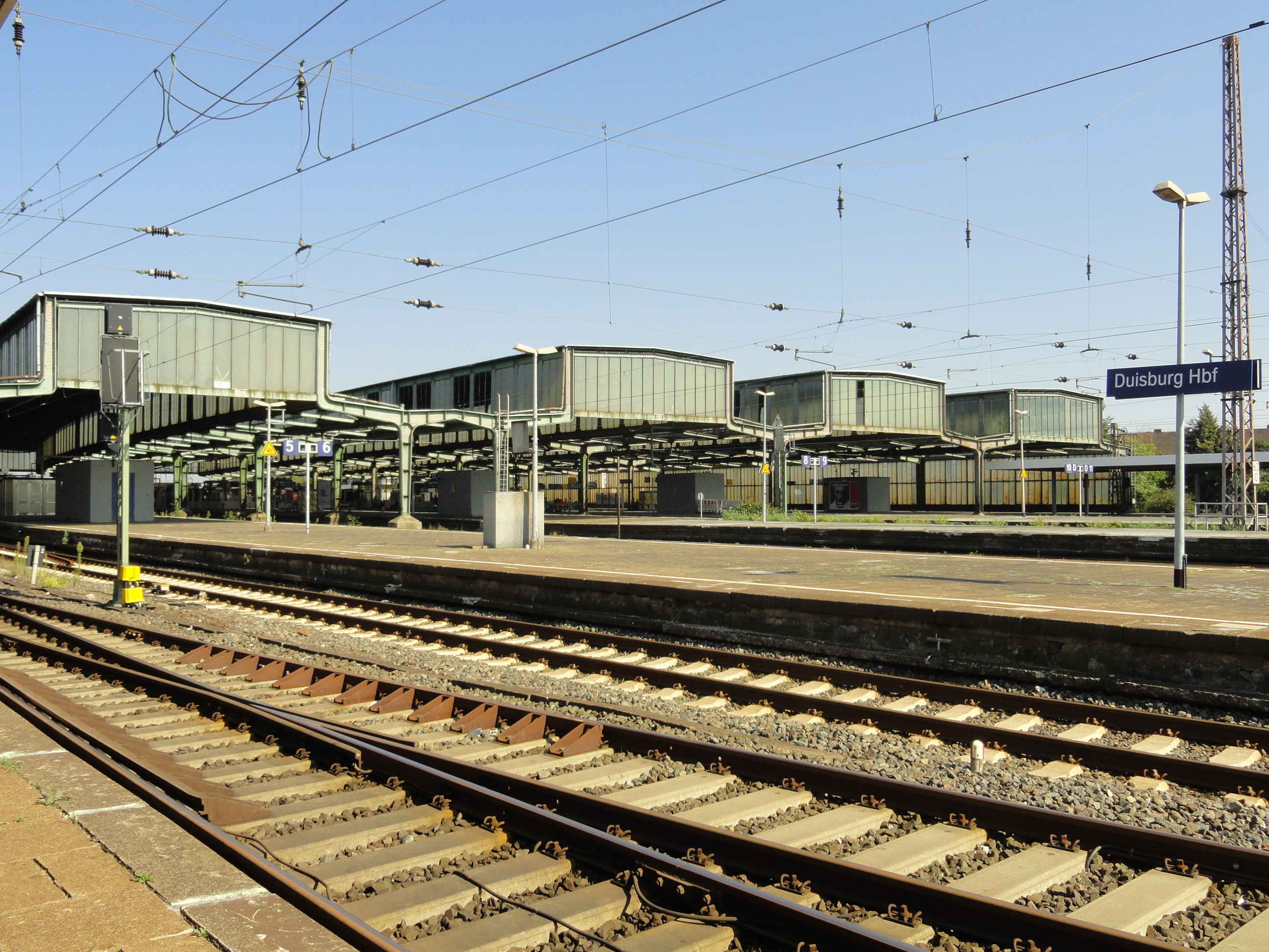 View of the historic platform canopies (built from 1931-34, with recourse to Roman/early Christian basilicas with clerestory windows) from south.